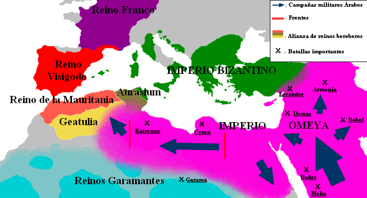 maps